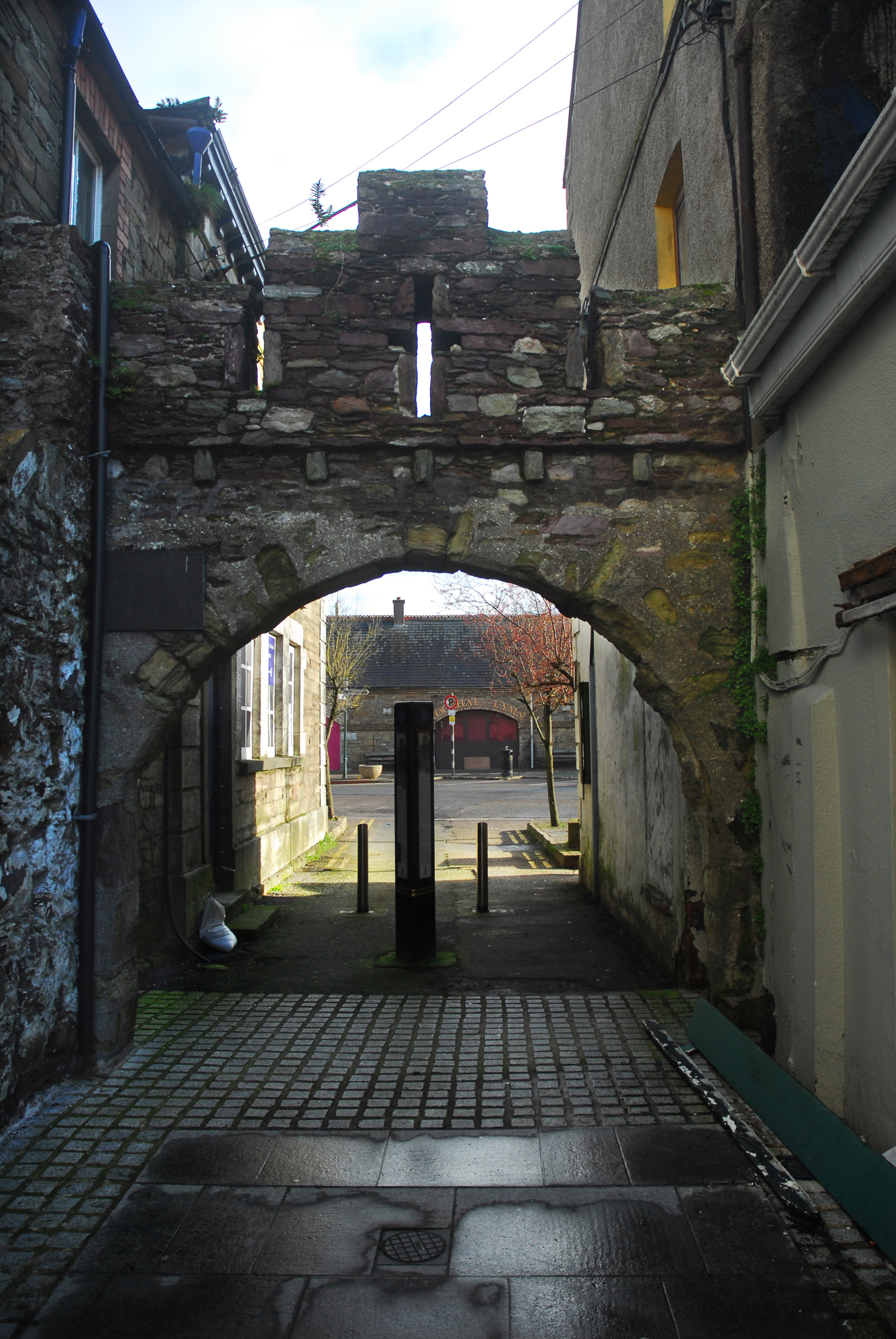 The Water Gate also known as Cromwell's arch, Youghal, Co. Cork